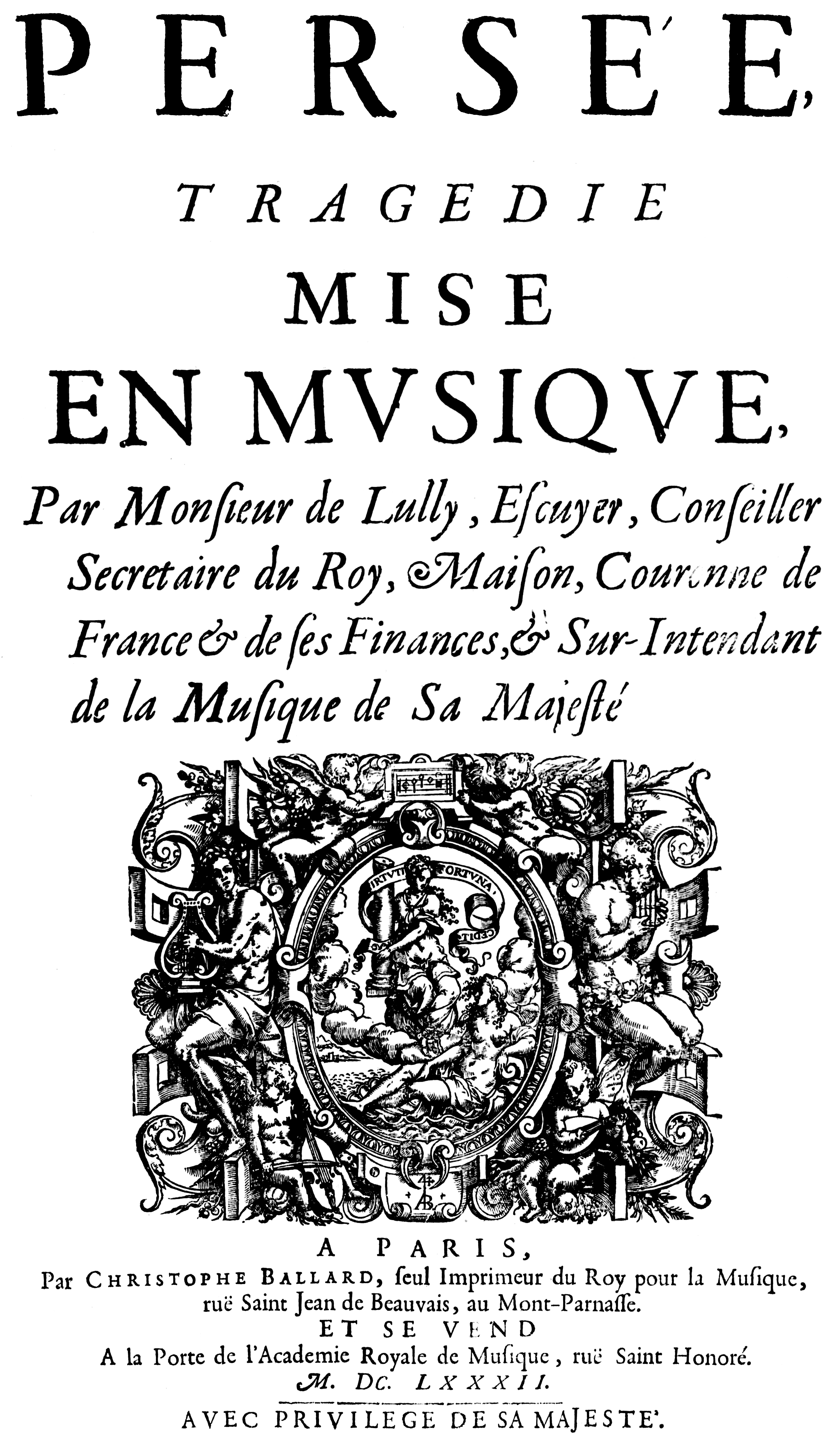 Jean-Baptiste Lully - Persée - title page of the score - Paris 1682